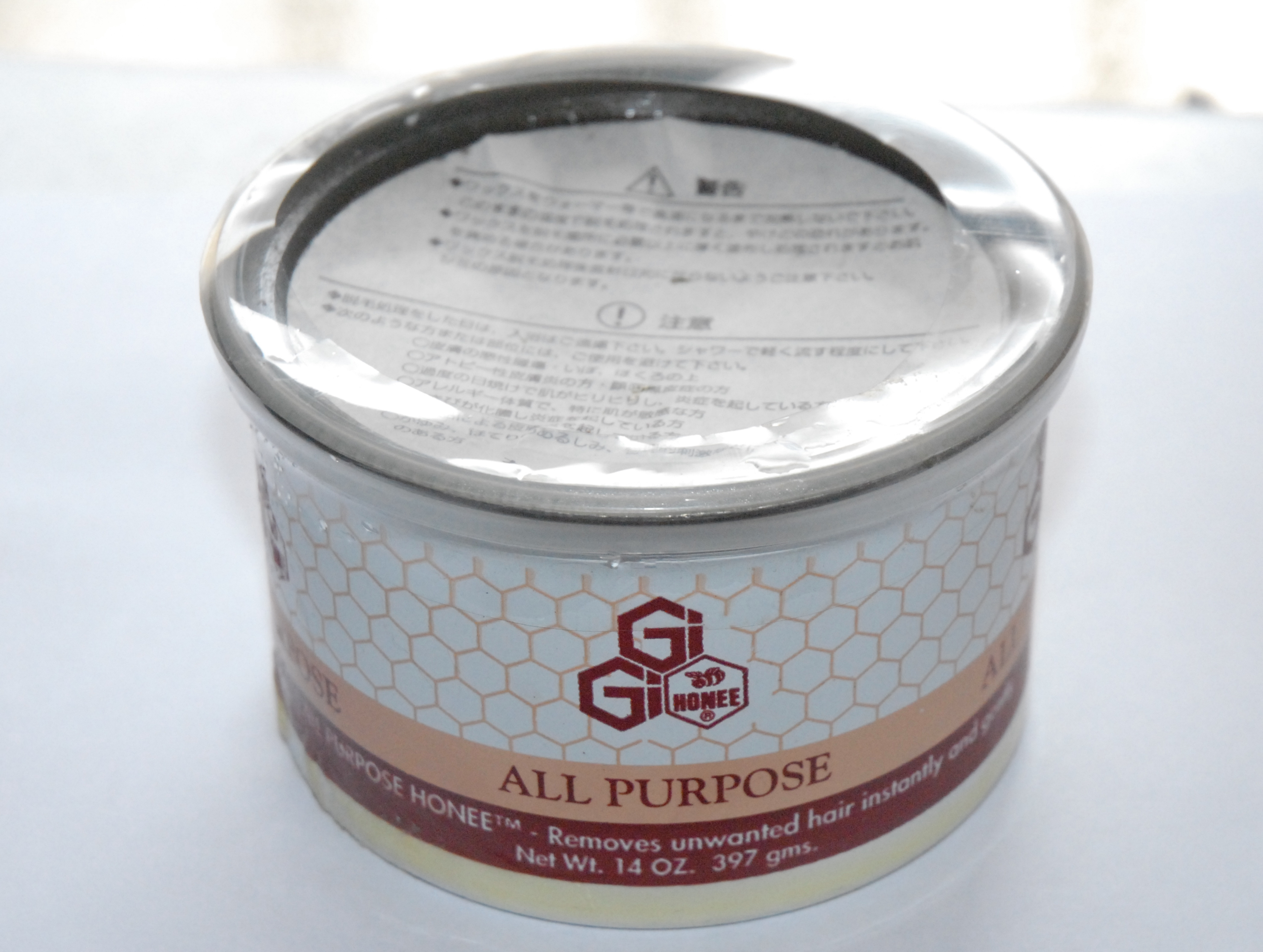 A can of wax for hair removal.